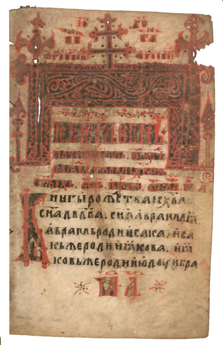 Fragment from the manuscript Triodion of Kopitar, XIIIth c. Macedonia